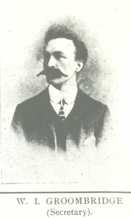 Image of William Ironside Groombridge, first manager of Gillingham F.C., reproduced from "The Book of Football" (1906, publisher unknown)